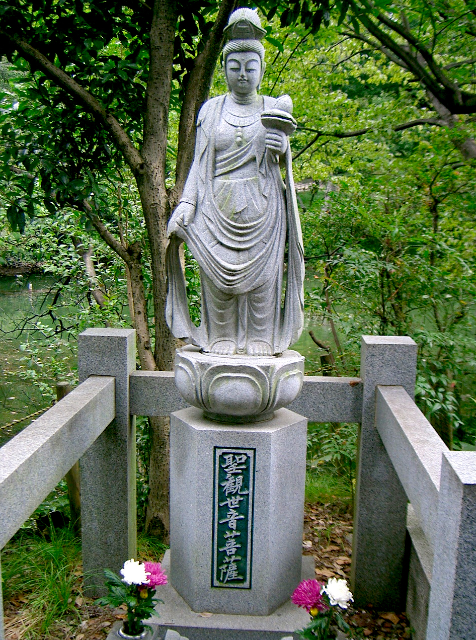 Sean Wilson, Benzaiten(?), Inokashira-Koen, 2005. -- As mentioned on the discussion page, the statue is clearly labelled 聖觀世音菩薩, Holy Kannon| Bosatsu. I suspect the photographer was mistaken about the identity of the statue.